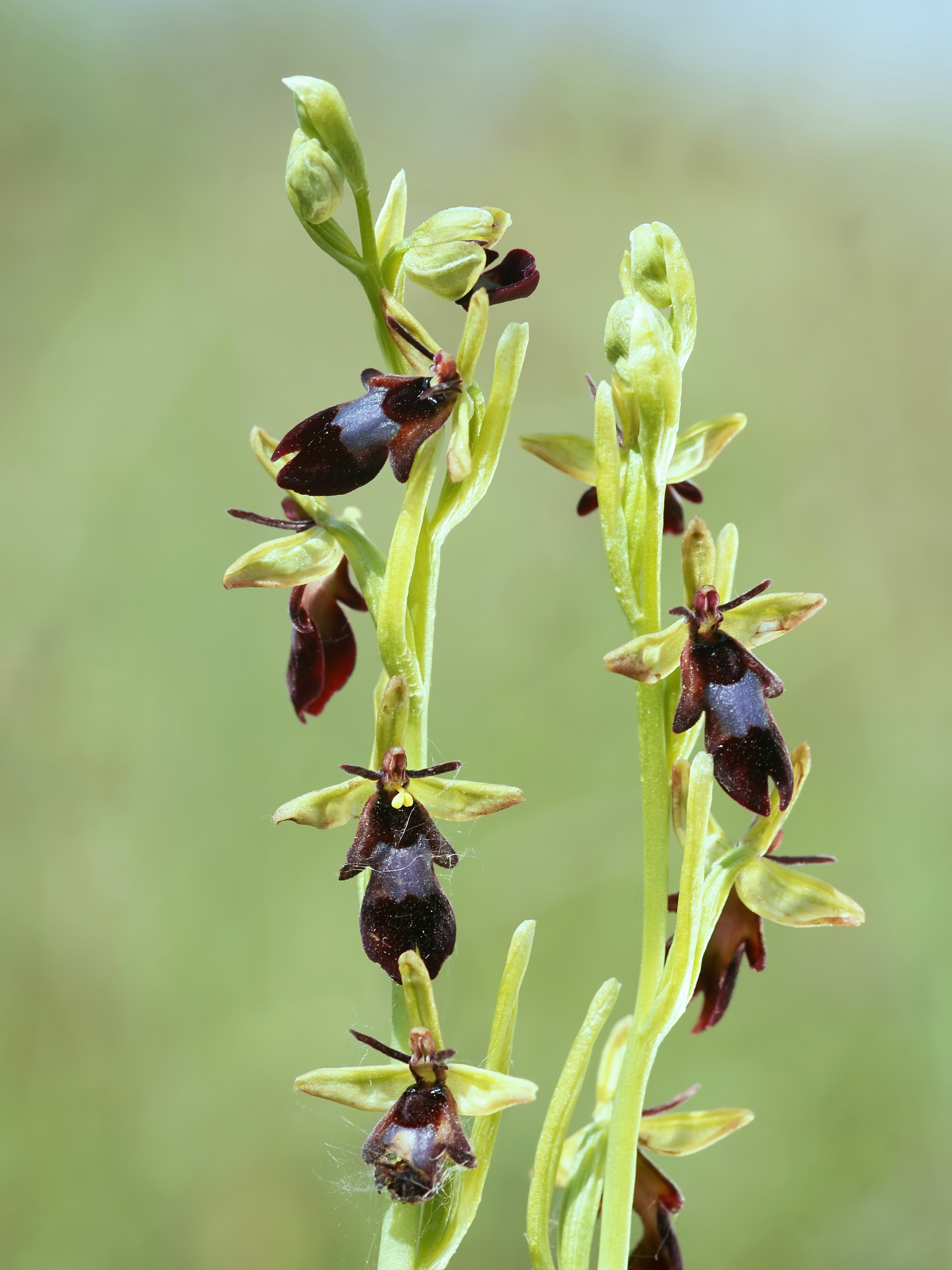 Fly orchis in Belgium. Approximate co-ordinates: plant located within 3 km from Nismes